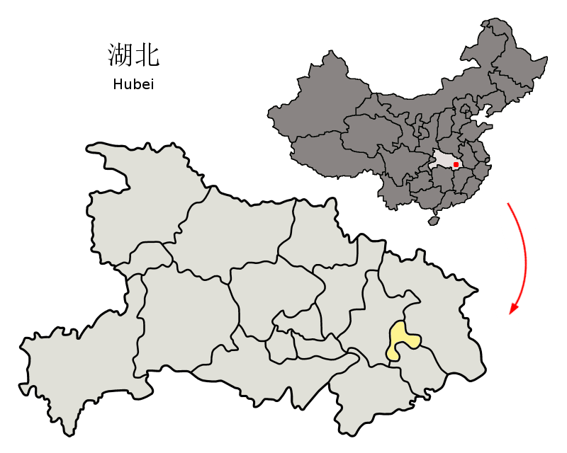 Location of Ezhou Prefecture (yellow) within Hubei Province of China Map drawn in december 2007 using various sources, mainly : Hubei Province administrative regions GIS data: 1:1M, County level, 1990 Hubei Counties map from